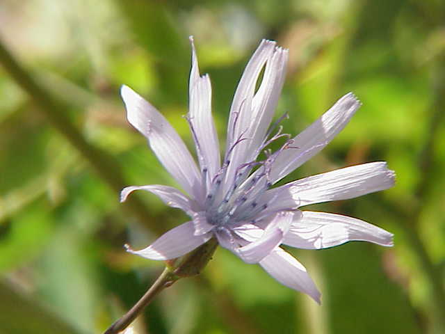 Species: Cicerbita plumieri Family: Compositae Image No. 2